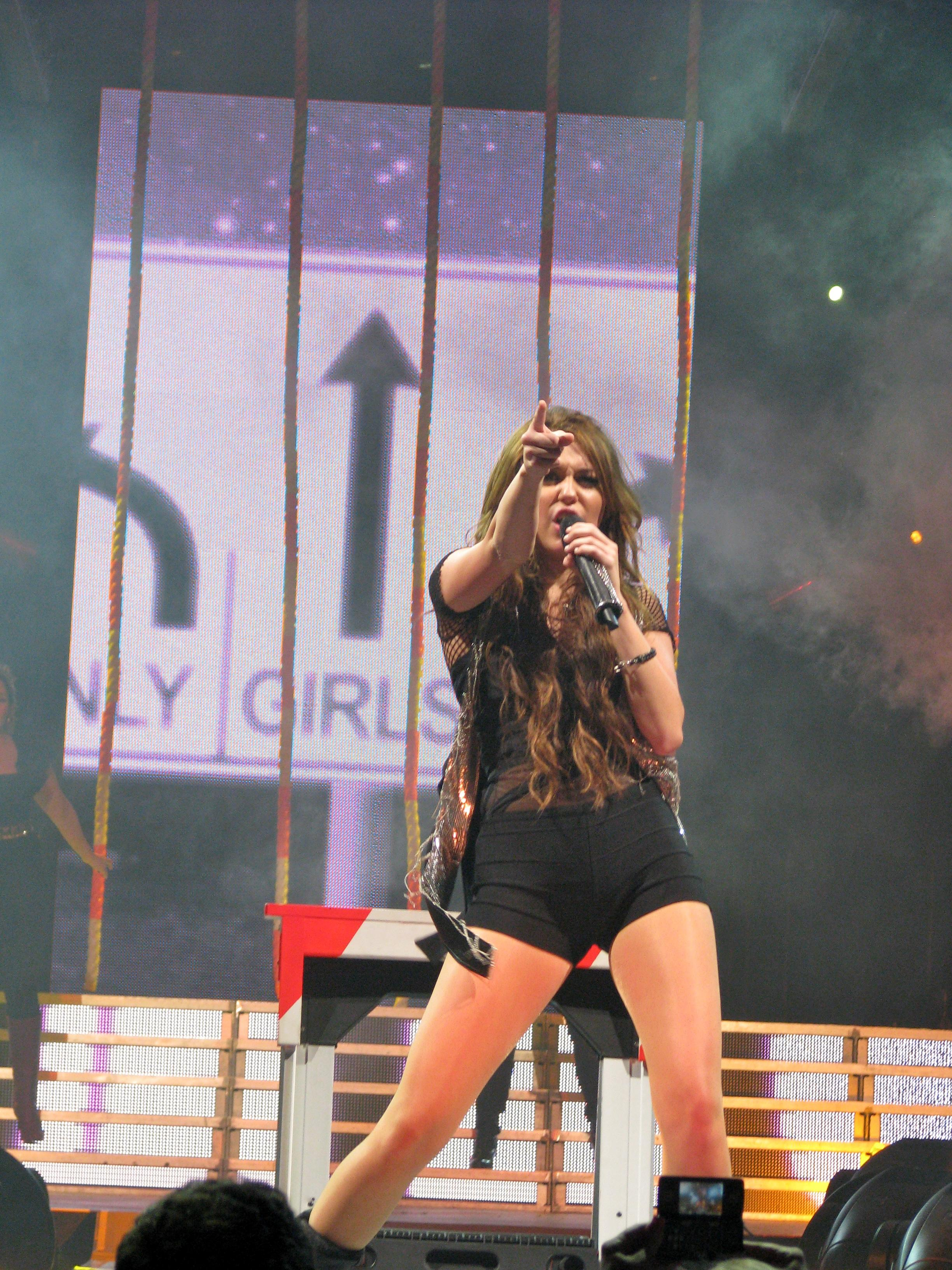 Miley Cyrus performs during her Portland, Oregan stop of her Wonder World Tour